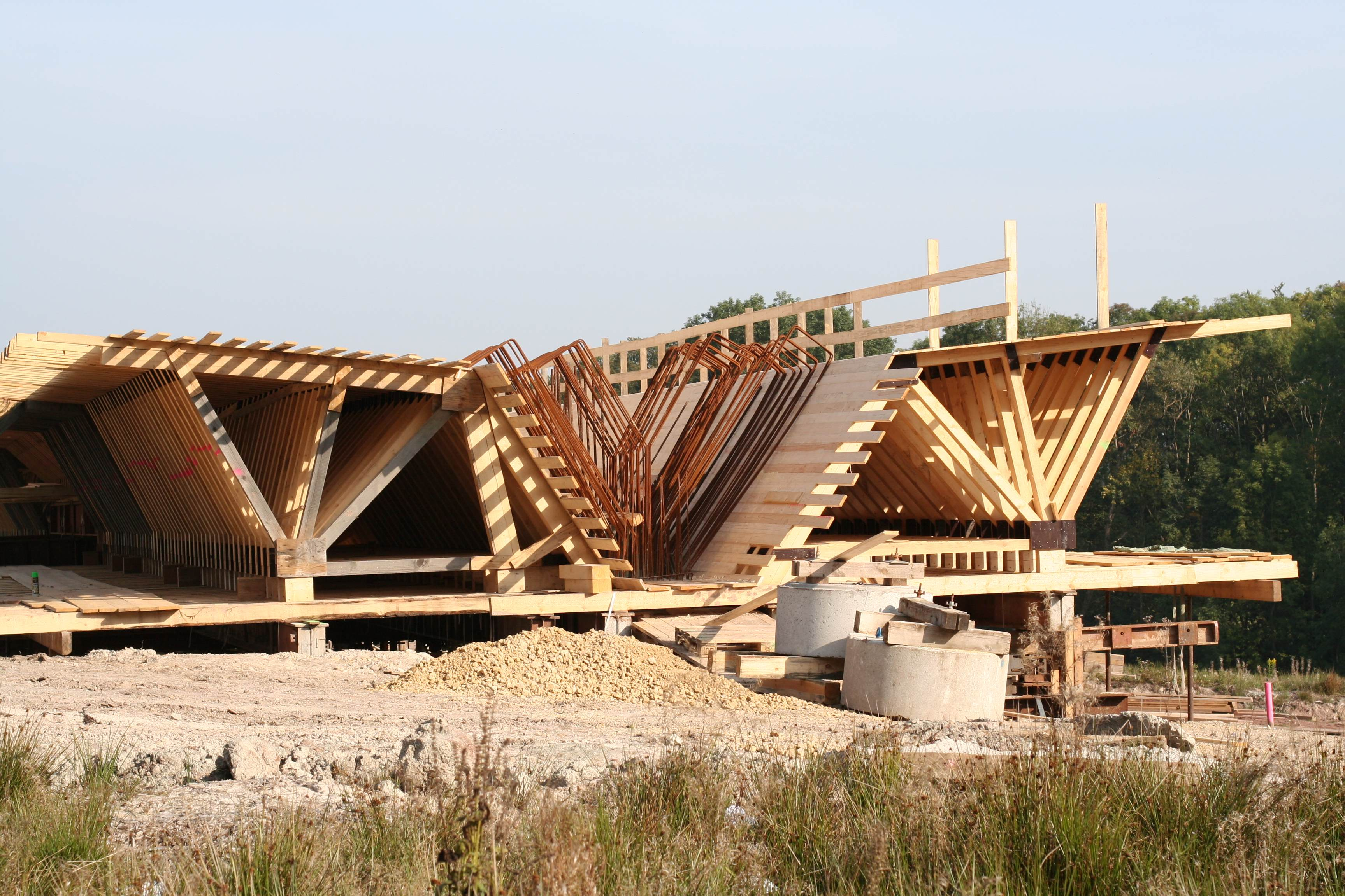 Formwork of concrete bridge